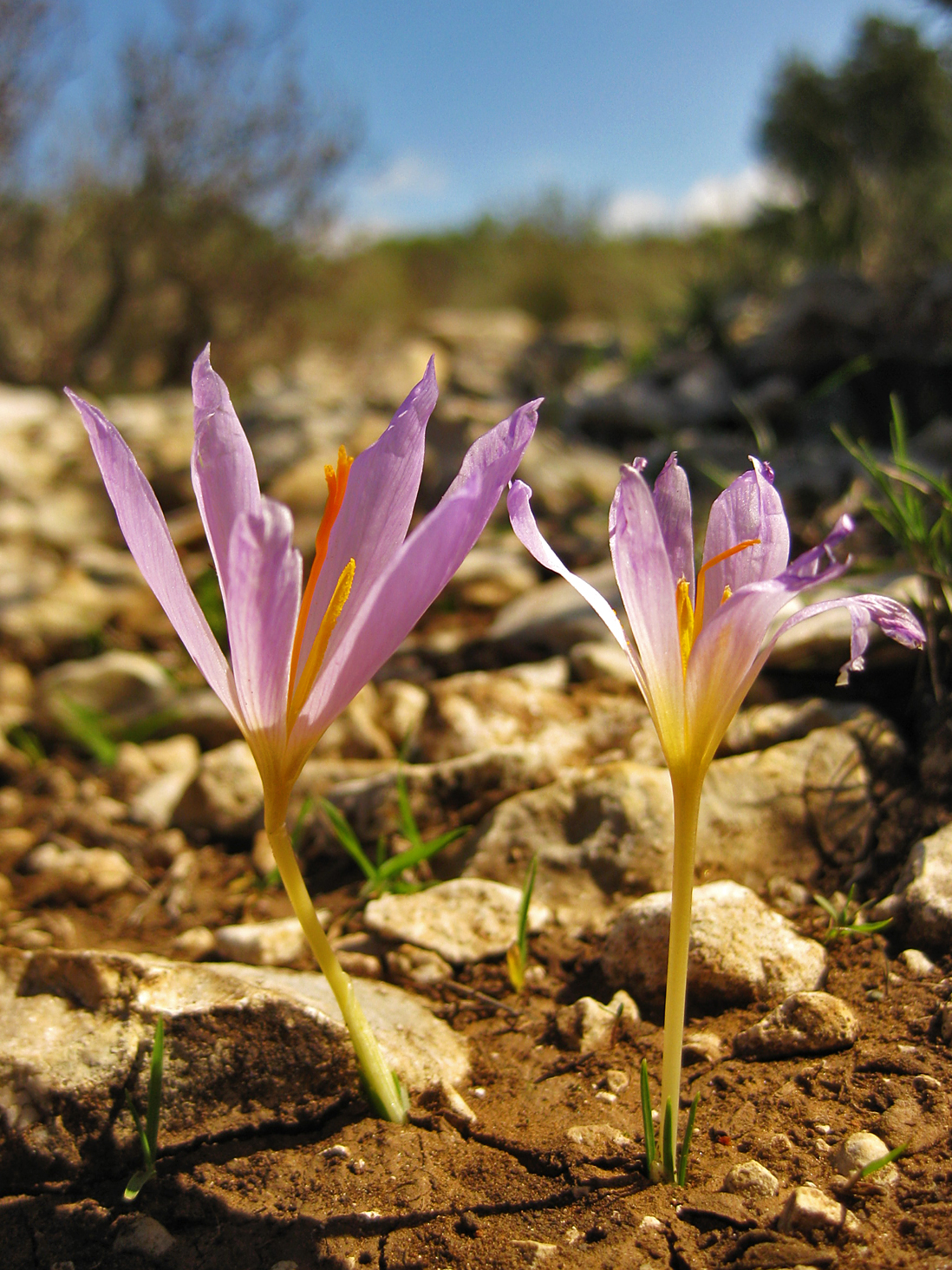 Alpine flowers at 994 m above sea level, on top of the Carrascar de Parcent mountain, near Parcent, County Marina Alta, Valencian Country, Spain.